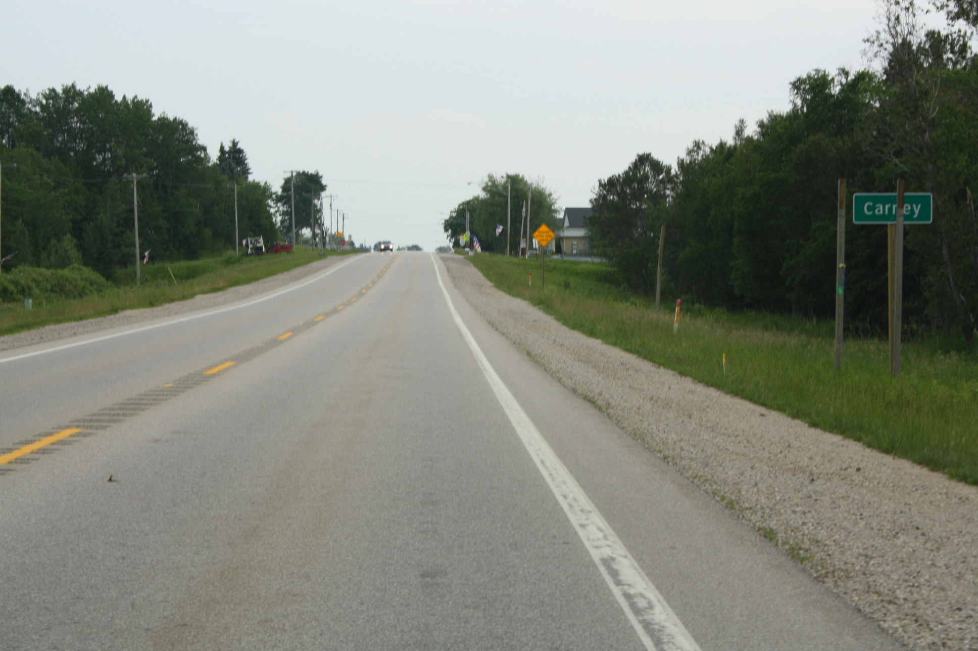 Looking south at the sign for Carney, Michigan on U.S. Route 41.